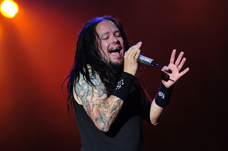 Jonathan Davis of KORN